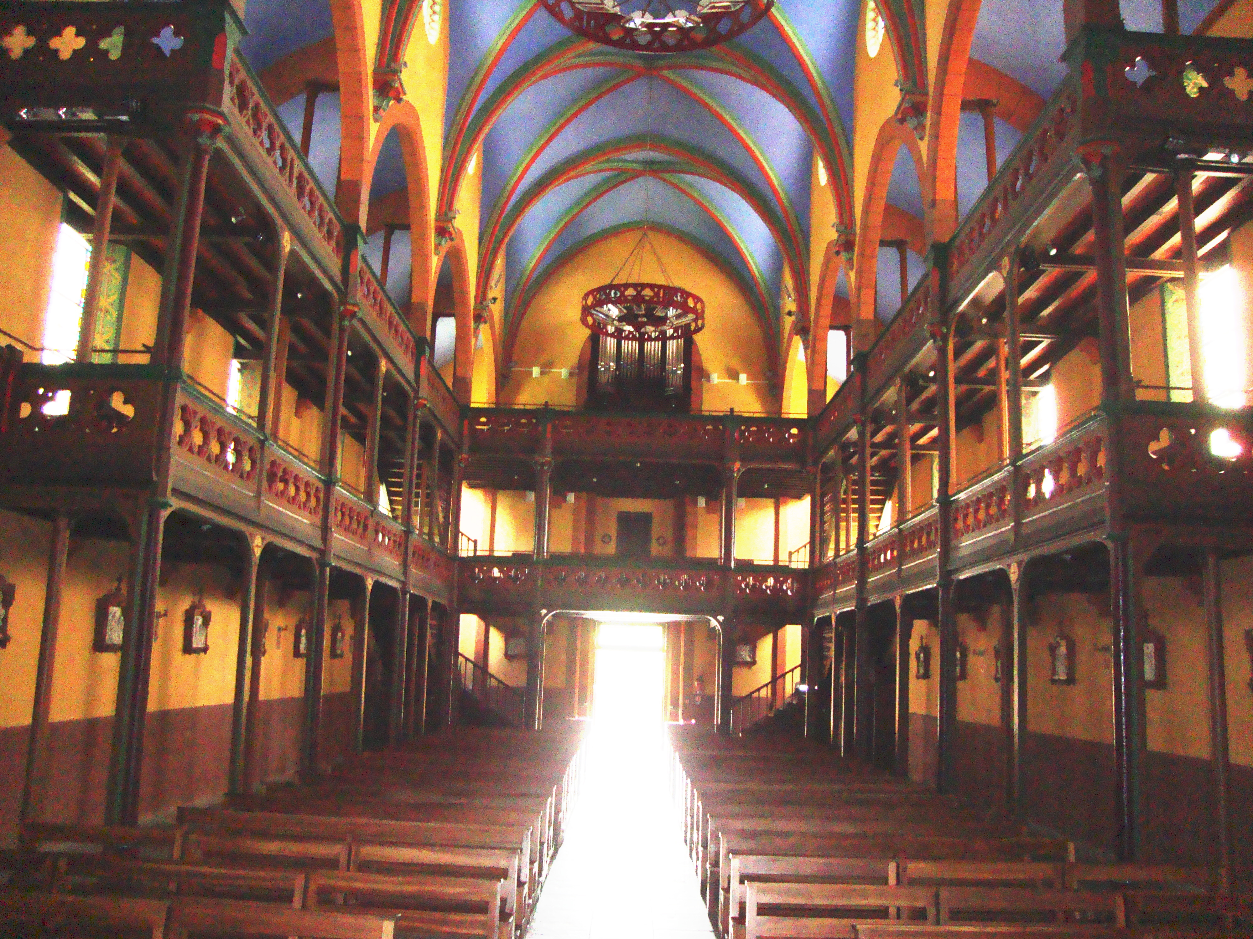 Ustaritz (Pyr-Atl., Fr) church Saint-Vincent-diacre, interior with 2 balconies.